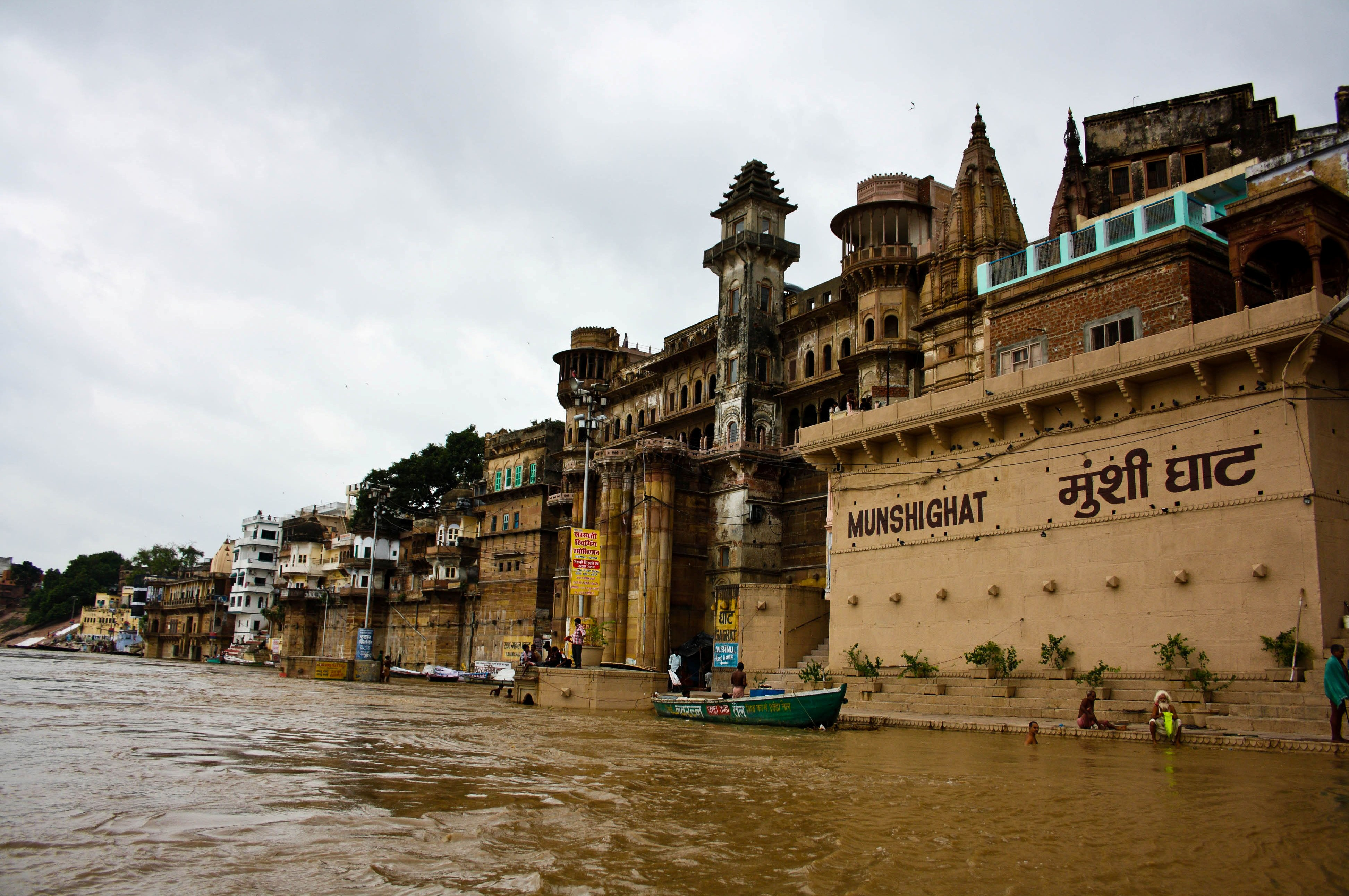 Varanasi or Banaras Ghats